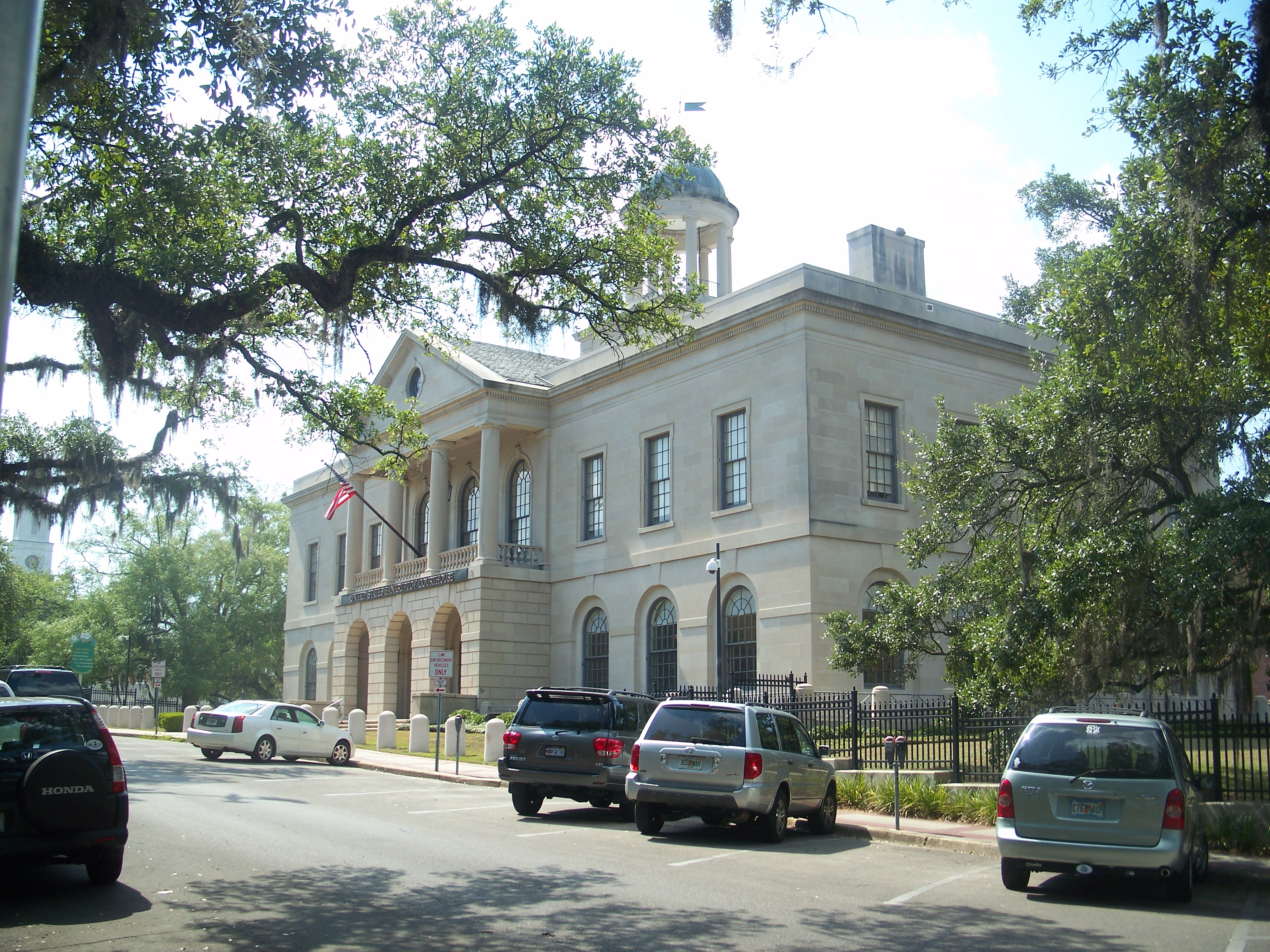 Tallahassee, Florida: Old U.S. Post Office and Court House. Now used by the U.S. Bankruptcy Court for the Northern District of Florida.